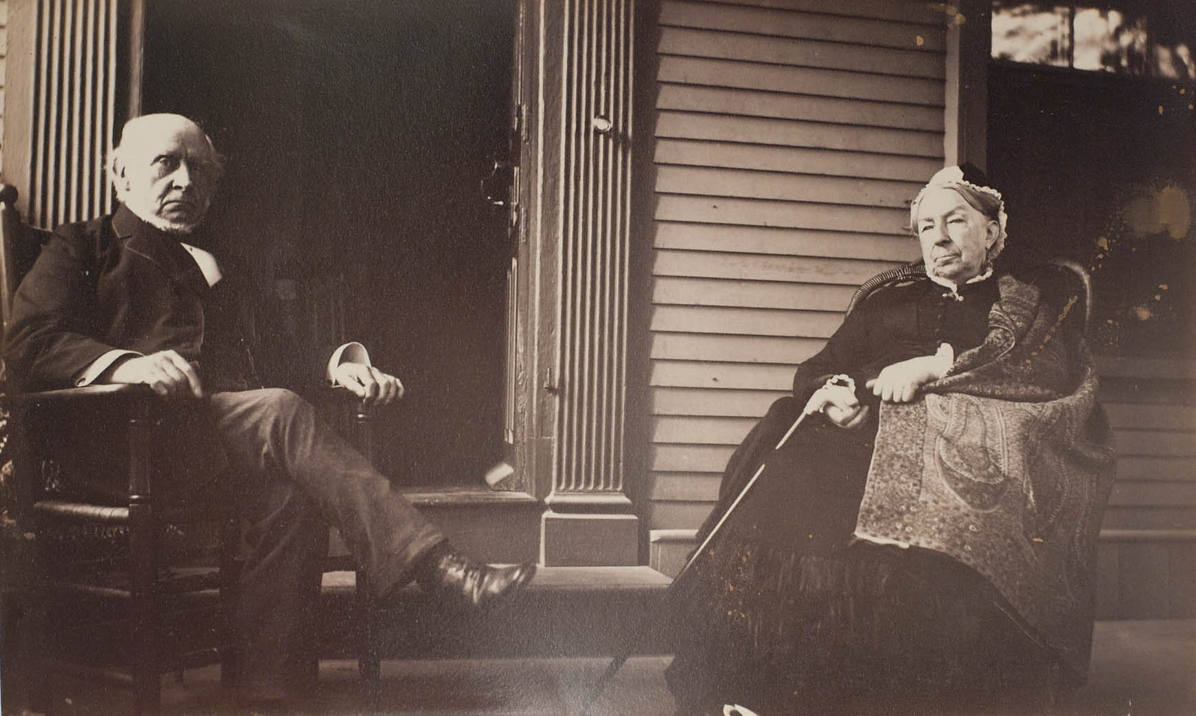 Charles F. Adams and Abigail Brooks Adams on piazza at Old House in Quincy. Photograph by Marian Hooper Adams, circa 1883. Album page: 17.4 cm x 25.2 cm; photograph: 11.7 cm x 19.3 cm. From the Marian Hooper Adams photographs. Photo 50.60. Album 8, page 13, "C.F.A., A.B.A." written by Marian Hooper Adams.